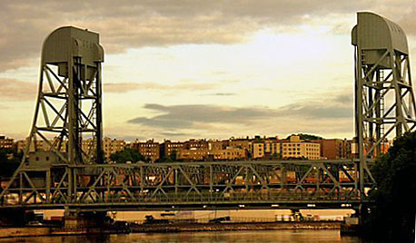 Broadway Bridge, taken by Flickr user x-eyedblonde from the Metro-North Hudson Line train.